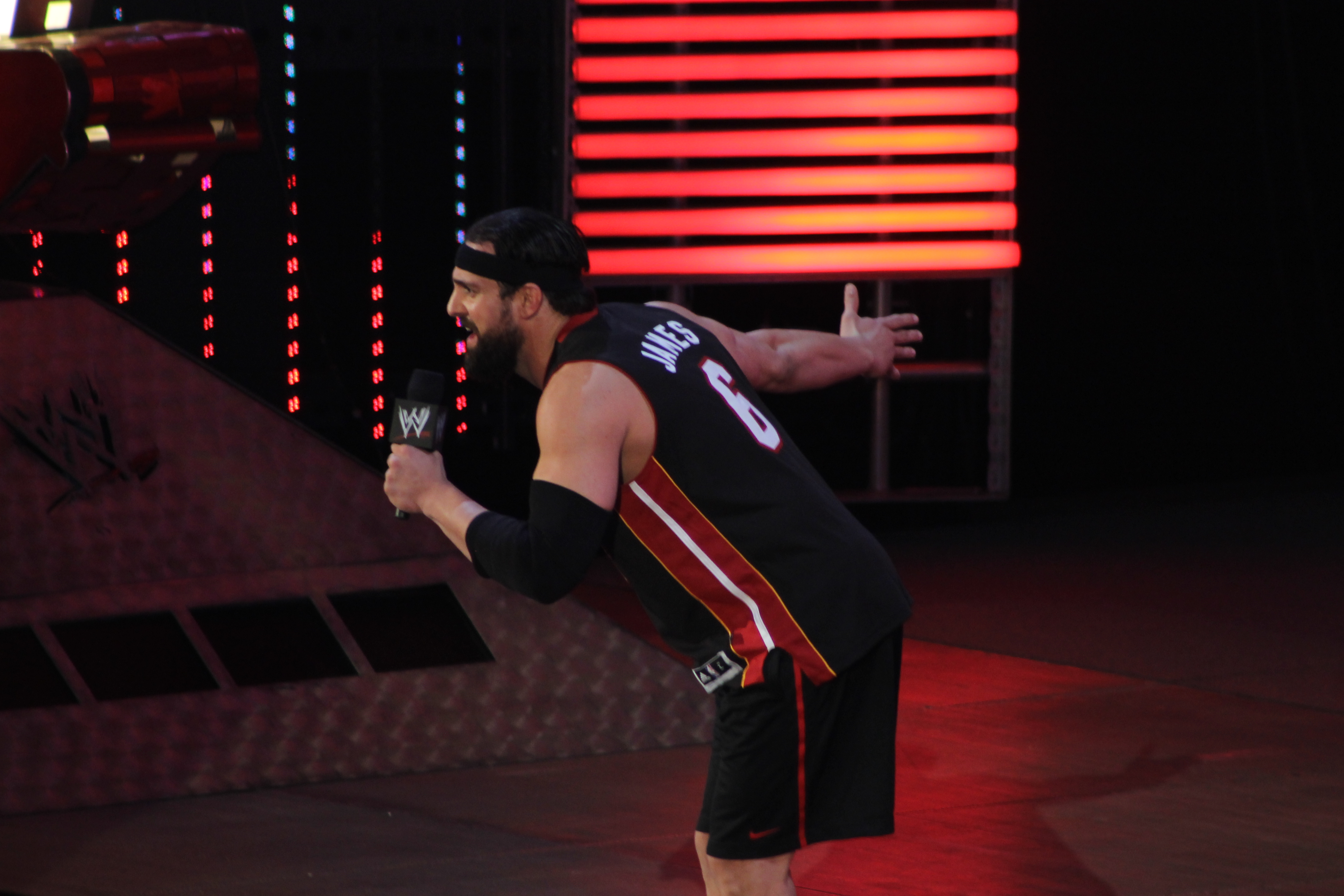 Damien Sandow dresses as Lebron James.